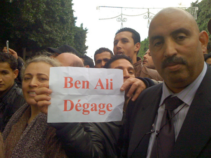 Original caption: Unrest culminates all over Tunis with one clear message from protesters of all ages: President Ben Ali must leave, 14 Jan 2011. (VOA Photo/L. Bryant)